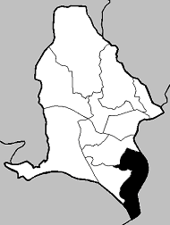 Location of Buraca parish in Amadora municipality. Map created by Brian Boru in December 2005.